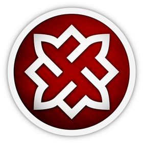 The logo of the movement of "Russian national unity" . The eight-pointed star